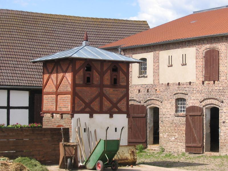 Farm courtyard in Baitz. The village Baitz is an incorporated part of the town Brück in Brandenburg, Germany.